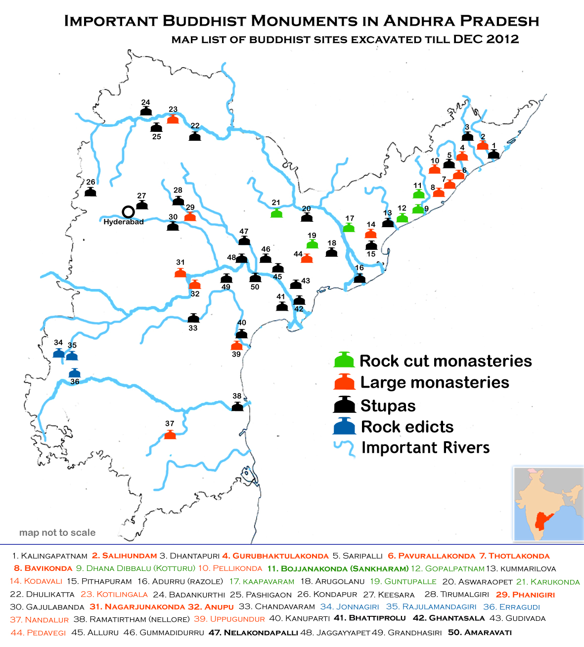 A map of Important Buddhist sites in Andhra Pradesh. (Excavated till Dec 2012)